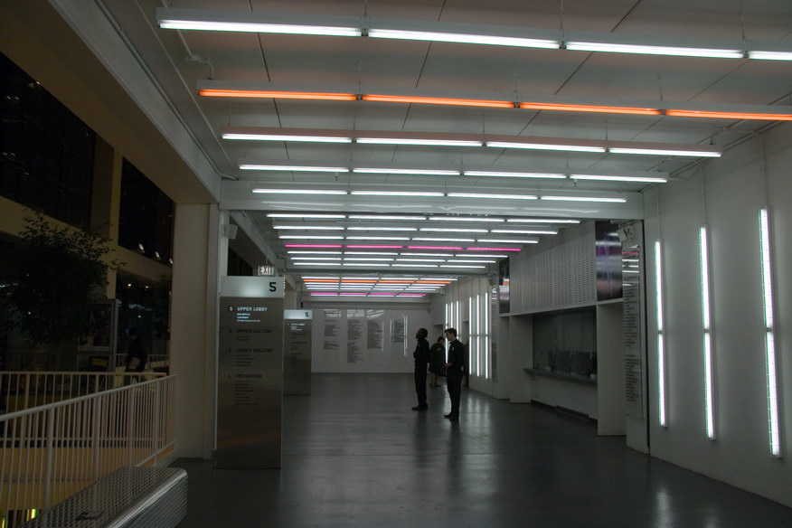 Inside Harris Theater (Chicago)